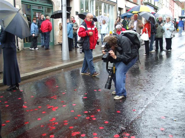 Omagh Bomb 10th anniversary (11). Keen photographers are picturing the red hearts that have been strewn on the road by the passing young people. more at